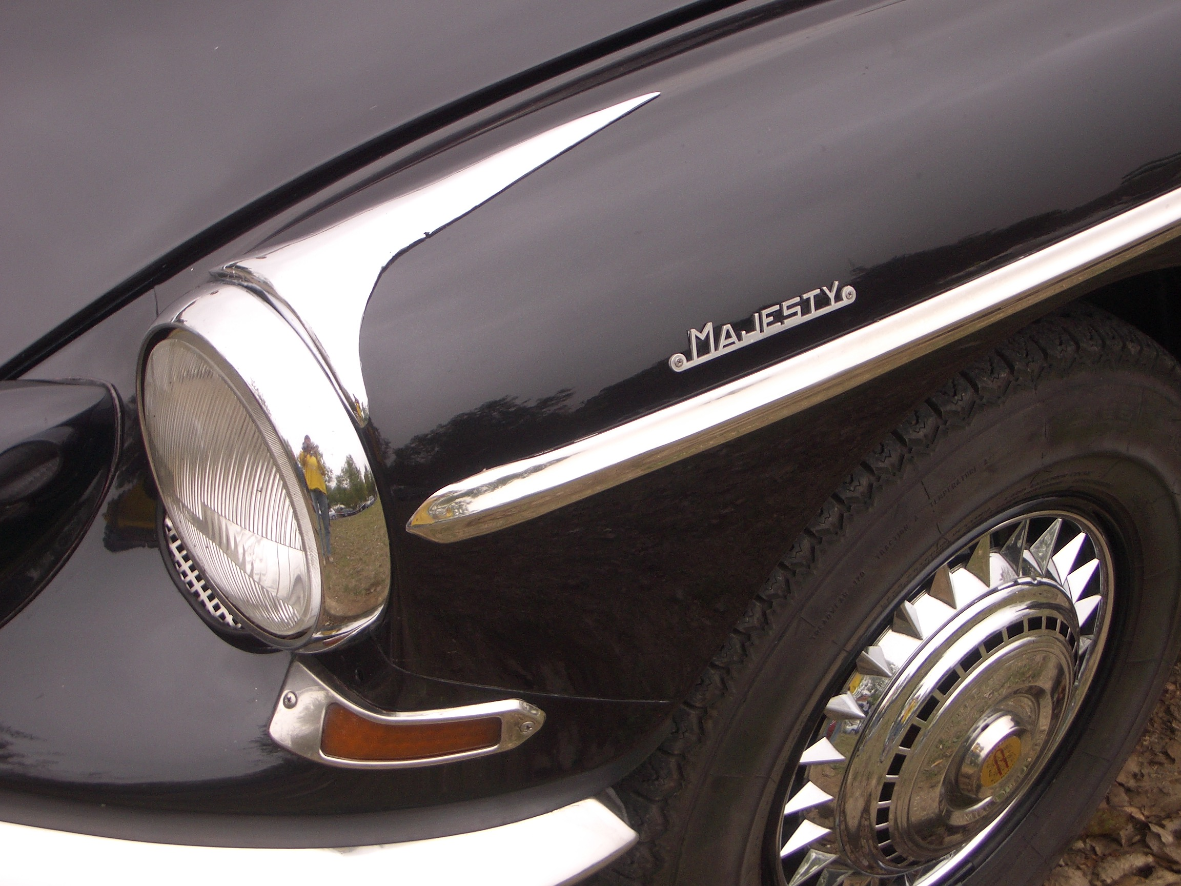 Chapron Majesty Limousine